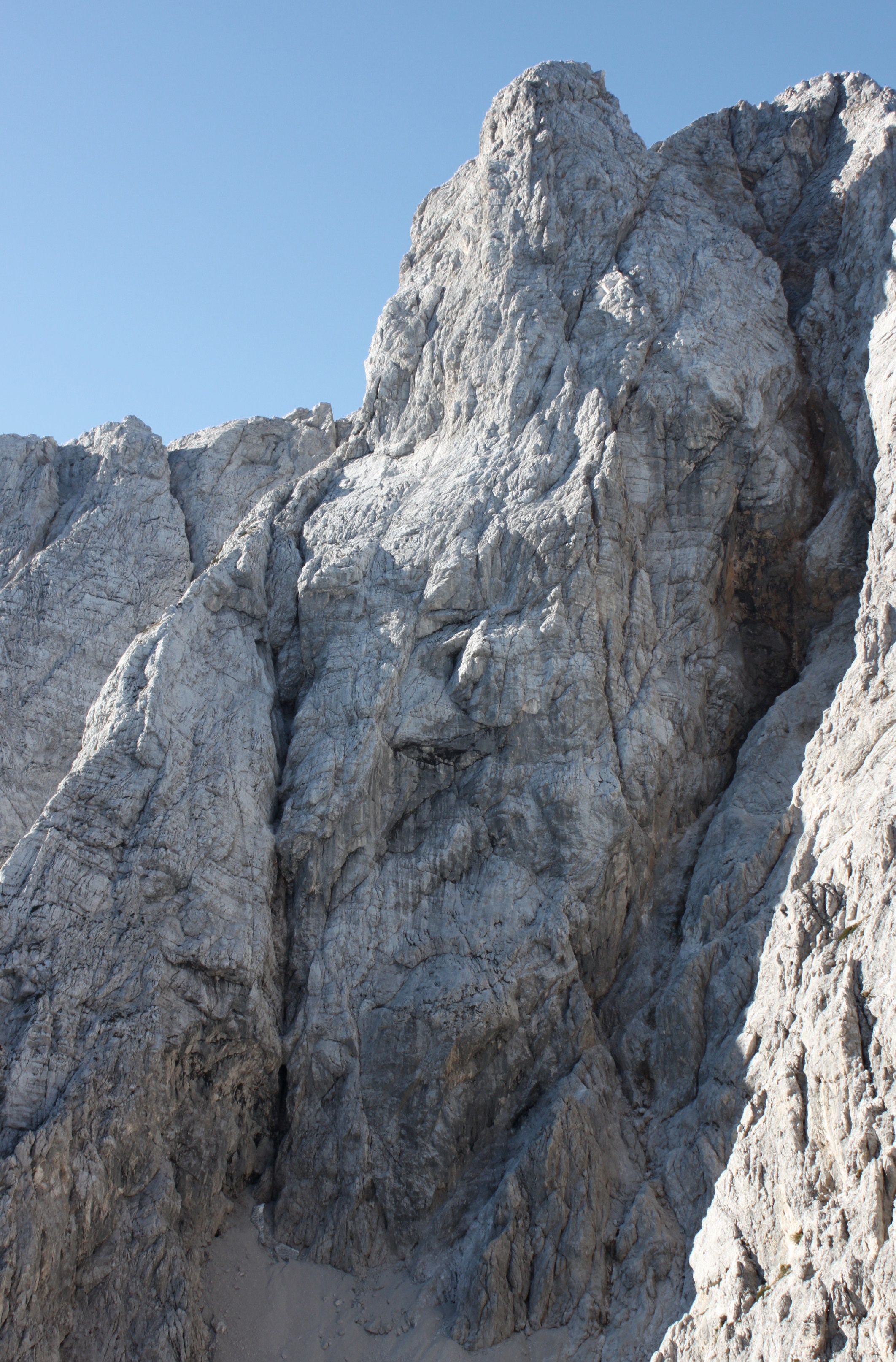 Štajerska Rinka north face seen from Mrzla gora